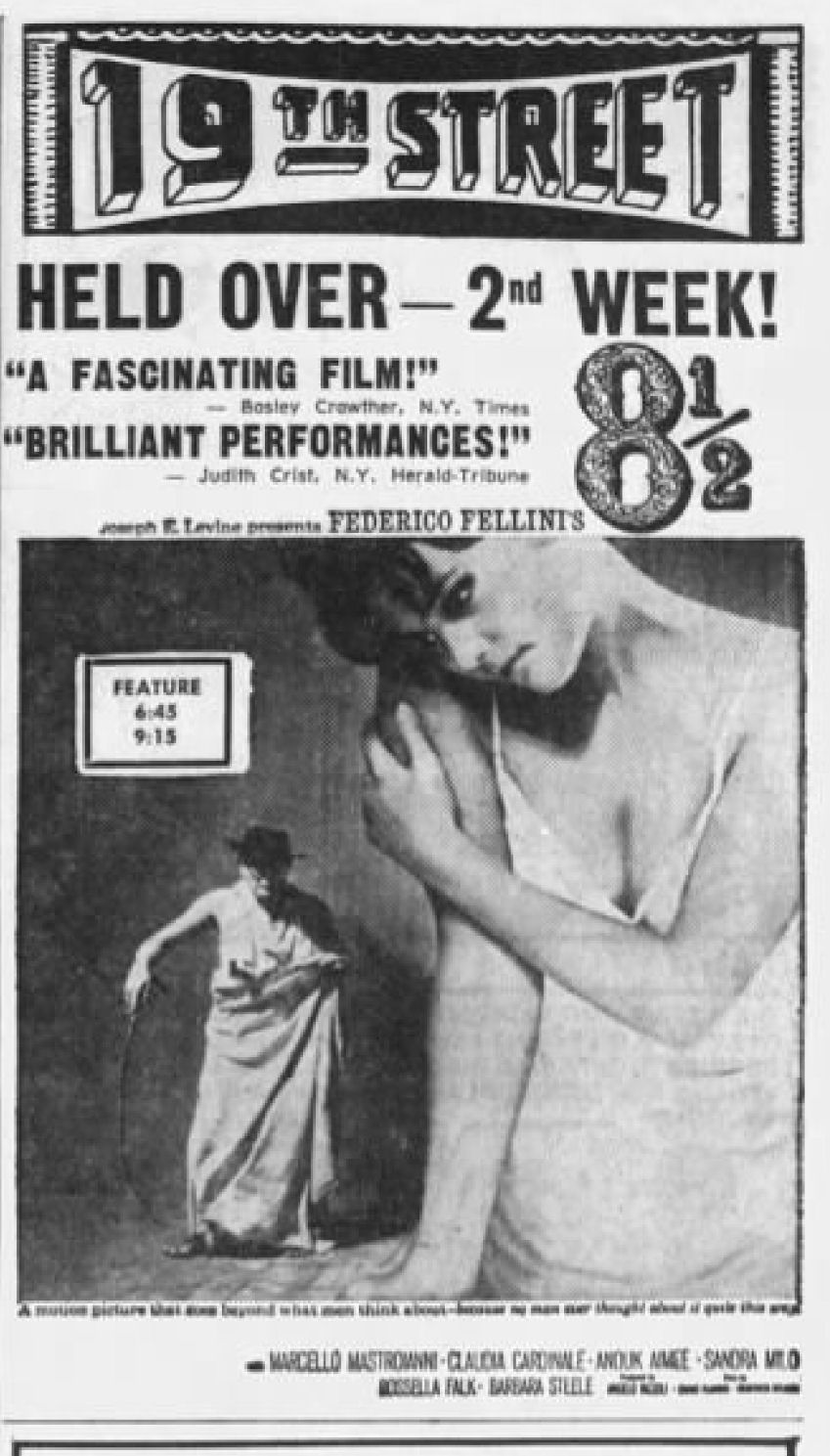 Nineteenth Street Theater advertisement for the Italian film 8½ (Italian: Otto e mezzo) (1963) - 26 Oct. 1963 Morning Call, Allentown PA